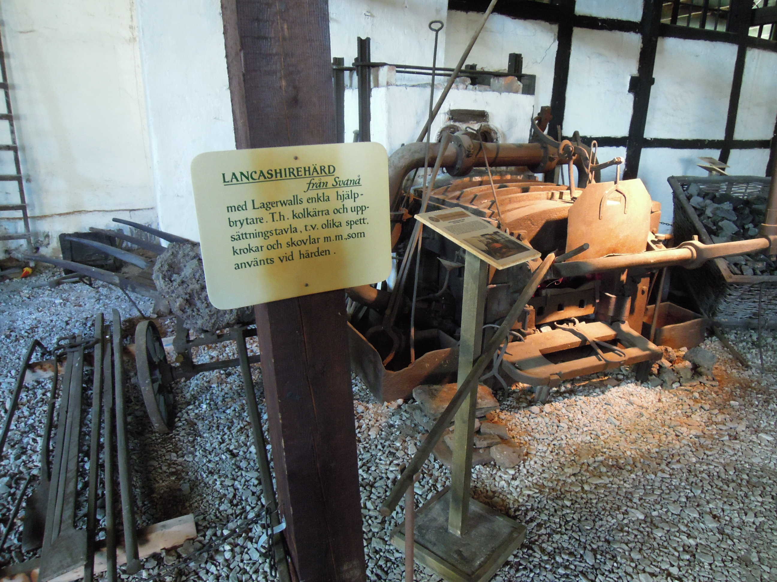 Information sign (text in swedish) at Lancashire hearth originally from Svanå. Ironwork museum in Surahammar, Sweden